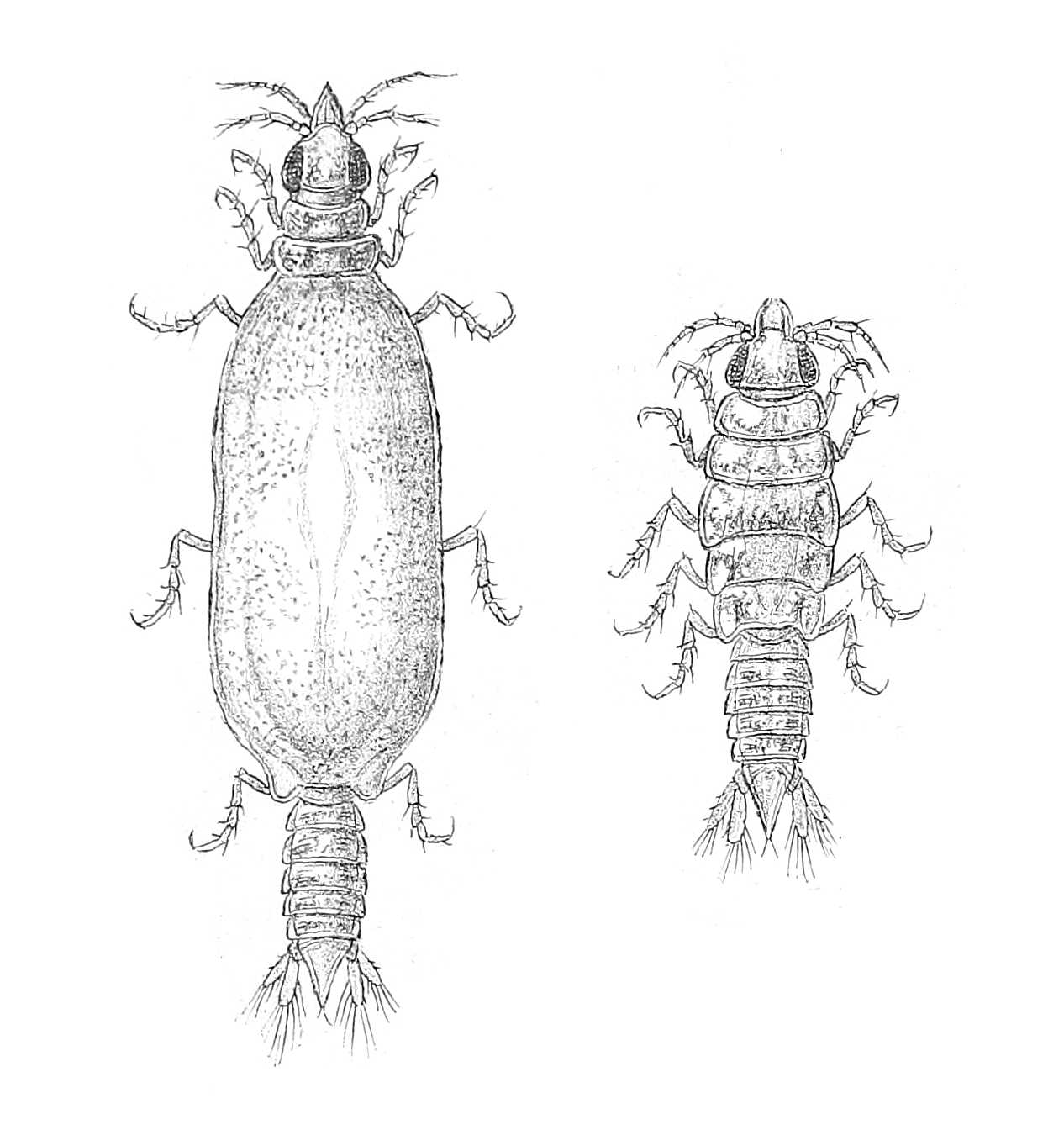 Juvenile stages of gnathiid isopod Gnathia maxillaris: left – praniza (fed juvenile), right – zuphea (unfed juvenile).